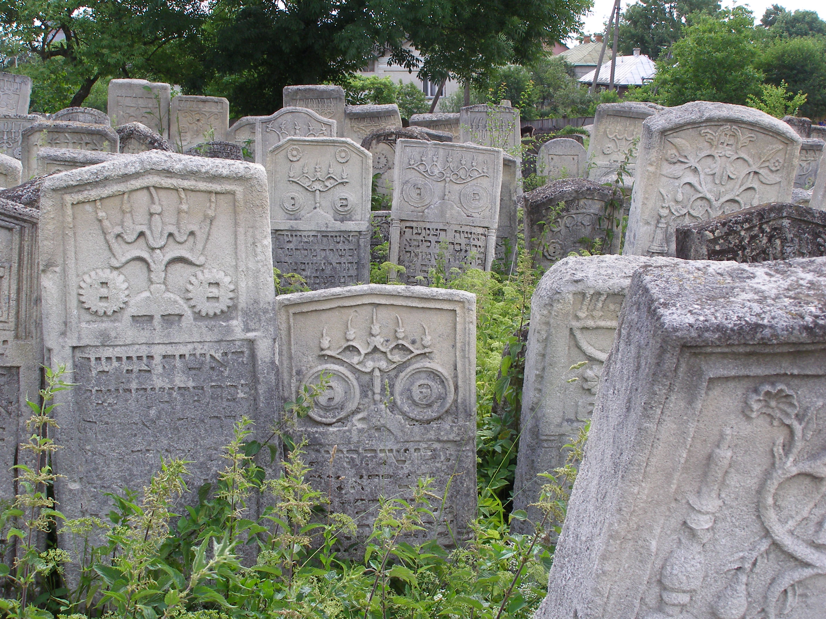 Old Jewish cemetery in the town of Burshtyn, Halych district, Ivano-Frankivsk Oblast, western Ukraine.